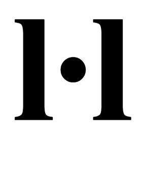 Two l's with a punt volat between them.